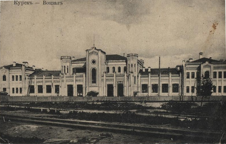 Old Kursk Train Station (Yamskoy Vokzal, Kursk I) in the begining of XX century